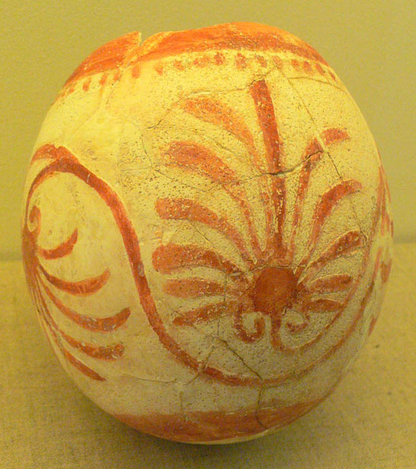 punic ostrich egg found in the phoenician necropolis of Puig des Molins. Museum of Puig des Molins in Ibiza (Spain).